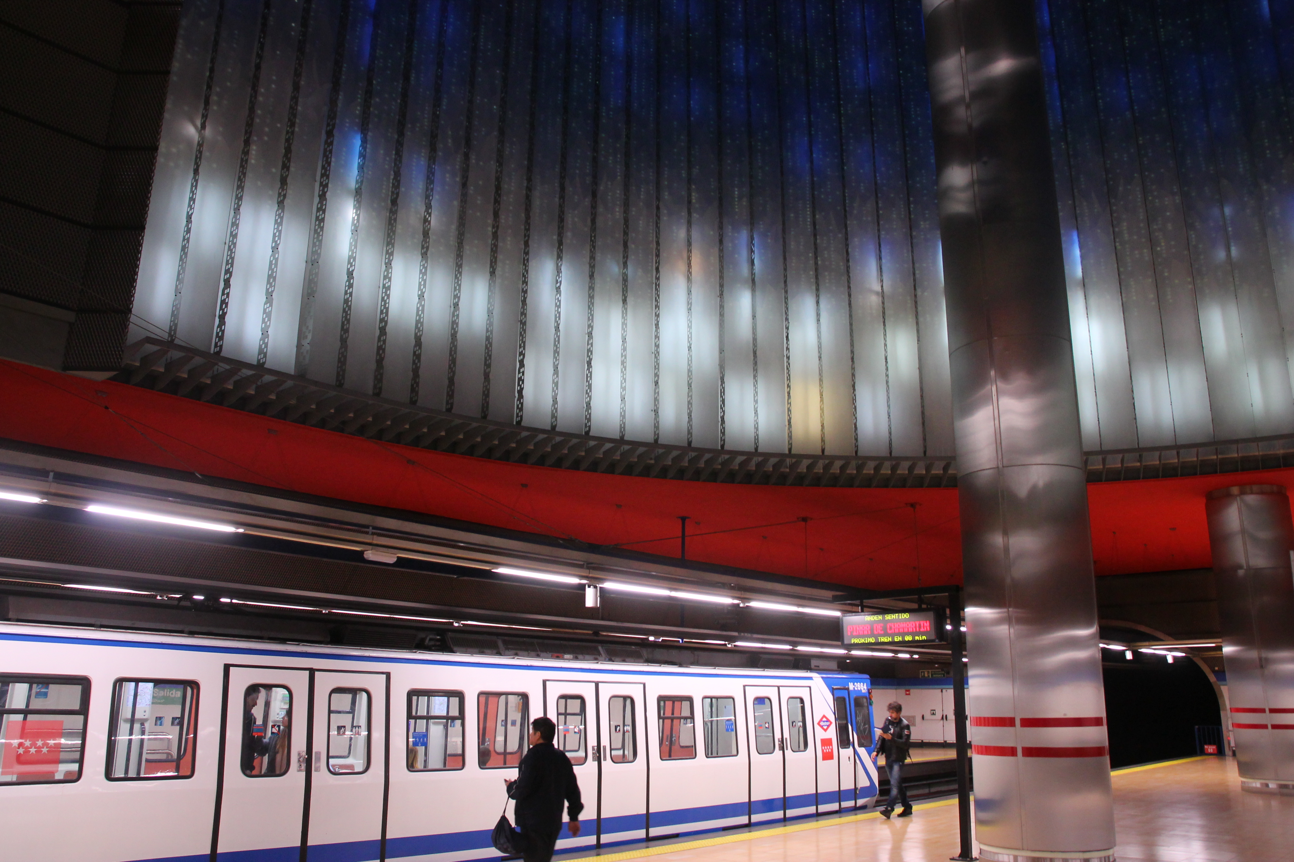 Estación de Chamartín